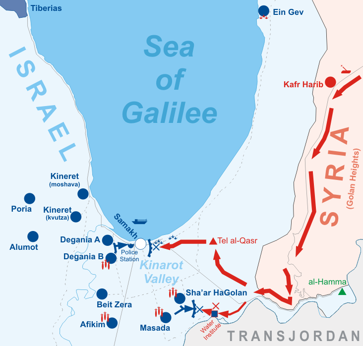 The first battle of Tzemah and Sha'ar HaGolan/Masada, as part of the Battles of the Kinarot Valley. Legend: Full circle: inhabited village Empty circle: abandoned village Full cluster: city Square: manned outpost Triangle: unmanned outpost or uninhabited notable site Blue color: Jewish Green color: Israeli Arab Red color: Syrian Grey line: Main road Dotted grey line: Secondary/unpaved road Artillery symbol: Artillery position Boat symbol: Gunboat 3 flame symbols: Position shelled by artillery or gunboat 3 bomb symbols: Position bombed from the air Arrow: Troop movement Solid line with protruding dashes: Frontal entrenchment/position Two swords: Battle (blue indicates Israeli victory, red indicates Syrian victory)